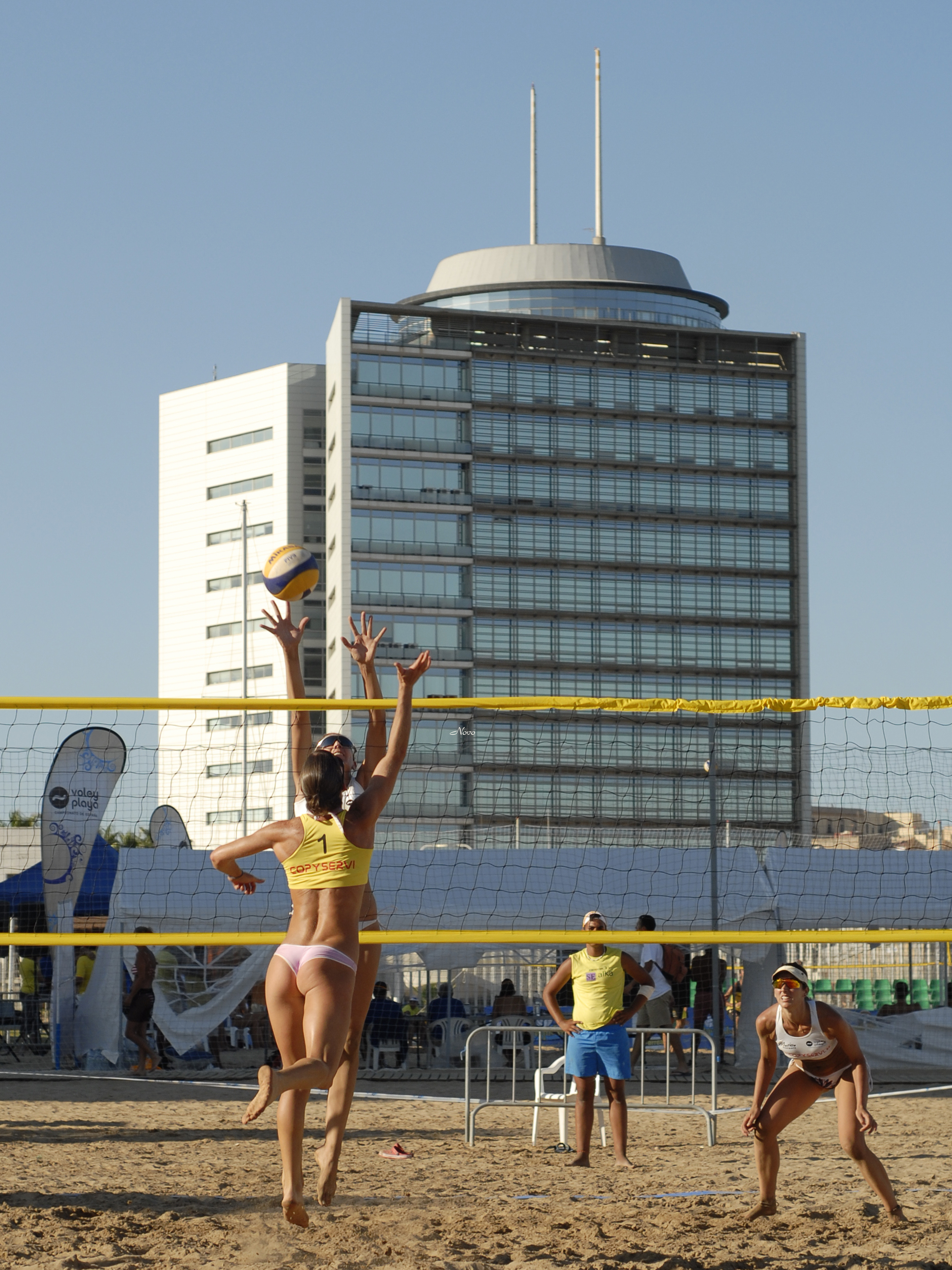 Melilla, playa de San Lorenzo, Campeonato de España de Voley Playa